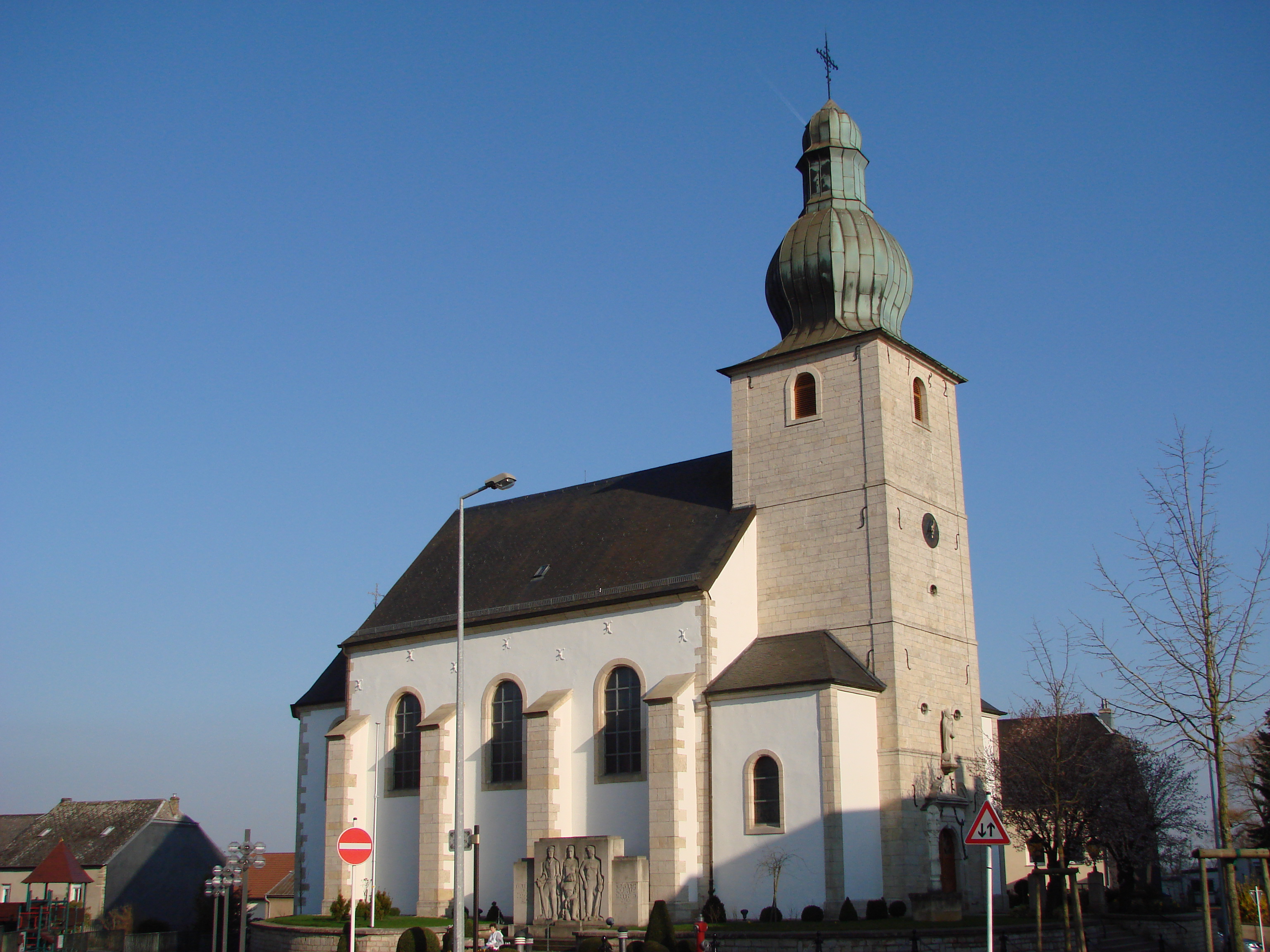 Mondercange church, Luxembourg